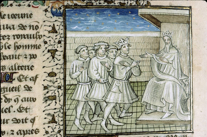 transferred from File:Lusignan.jpg Illuminated manuscript showing Richard I of England authorizing Guy of Lusignan to take Cyprus